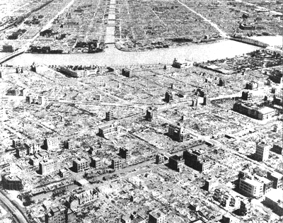 Tokyo after the massive air raid on 10 March 1945. 現在の中央区東日本橋付近。隅田川が見える。